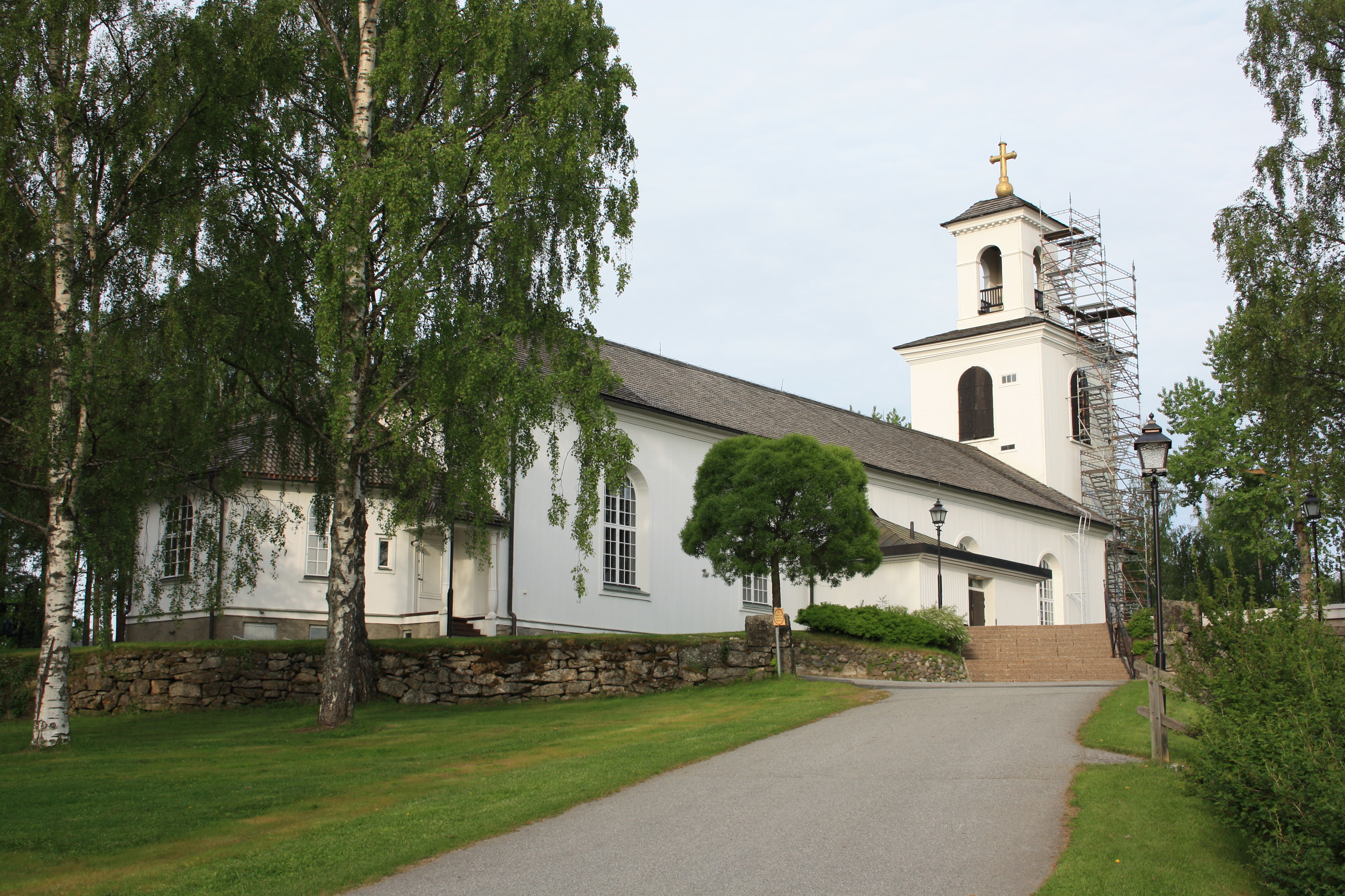 Lycksele church